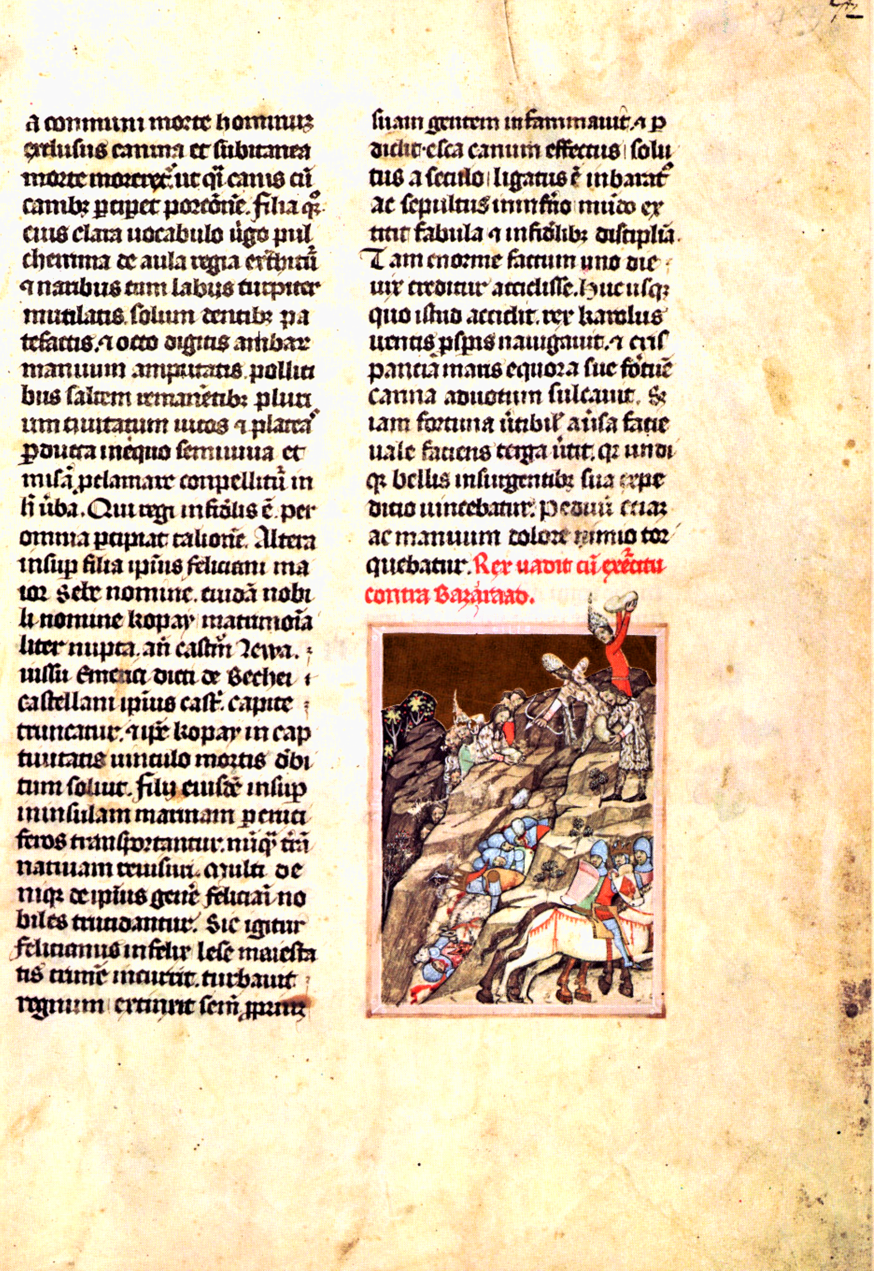 Illuminated Chronicle; Chronicon Pictum; Képes Krónika.